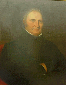 Cornelius Parsons Comegys of Delaware (1780-1851) artist: A. B. Rockey, 1839, Canvas; 27" x 32" Courtesy of Delaware Department of State, Division of Historical and Cultural Affairs. Collection of the Delaware State Museums. Per Jeff Hague, Registrar of Regulations, Legislative Council, State of Delaware, image is not copyright and is used with permission. Hall of Governors Portrait Gallery.